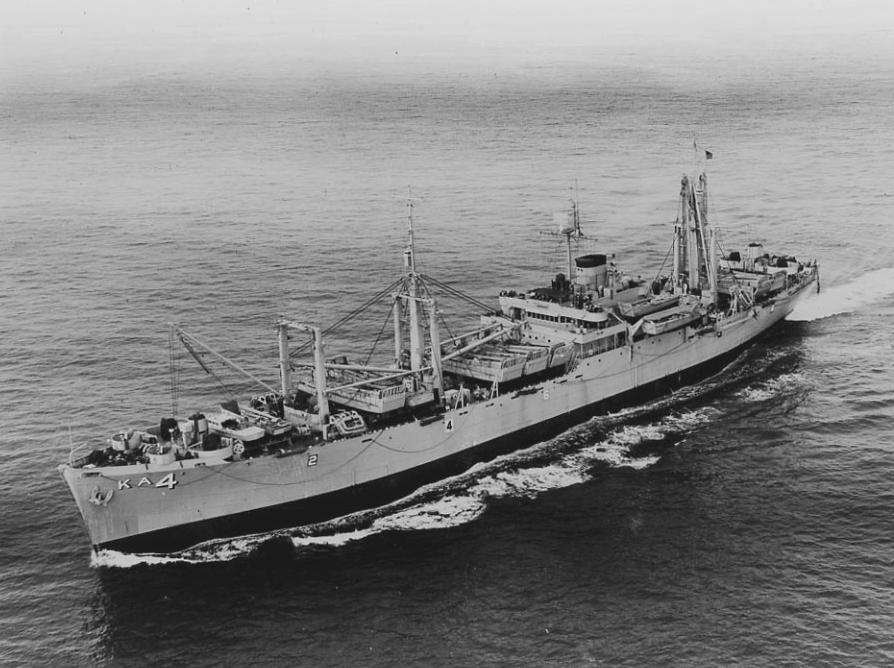 The U.S. Navy attack cargo ship USS Electra (AKA-4) underway at sea, in the 1950s. Electra was recommissioned between 3 May 1952 and 13 May 1955.